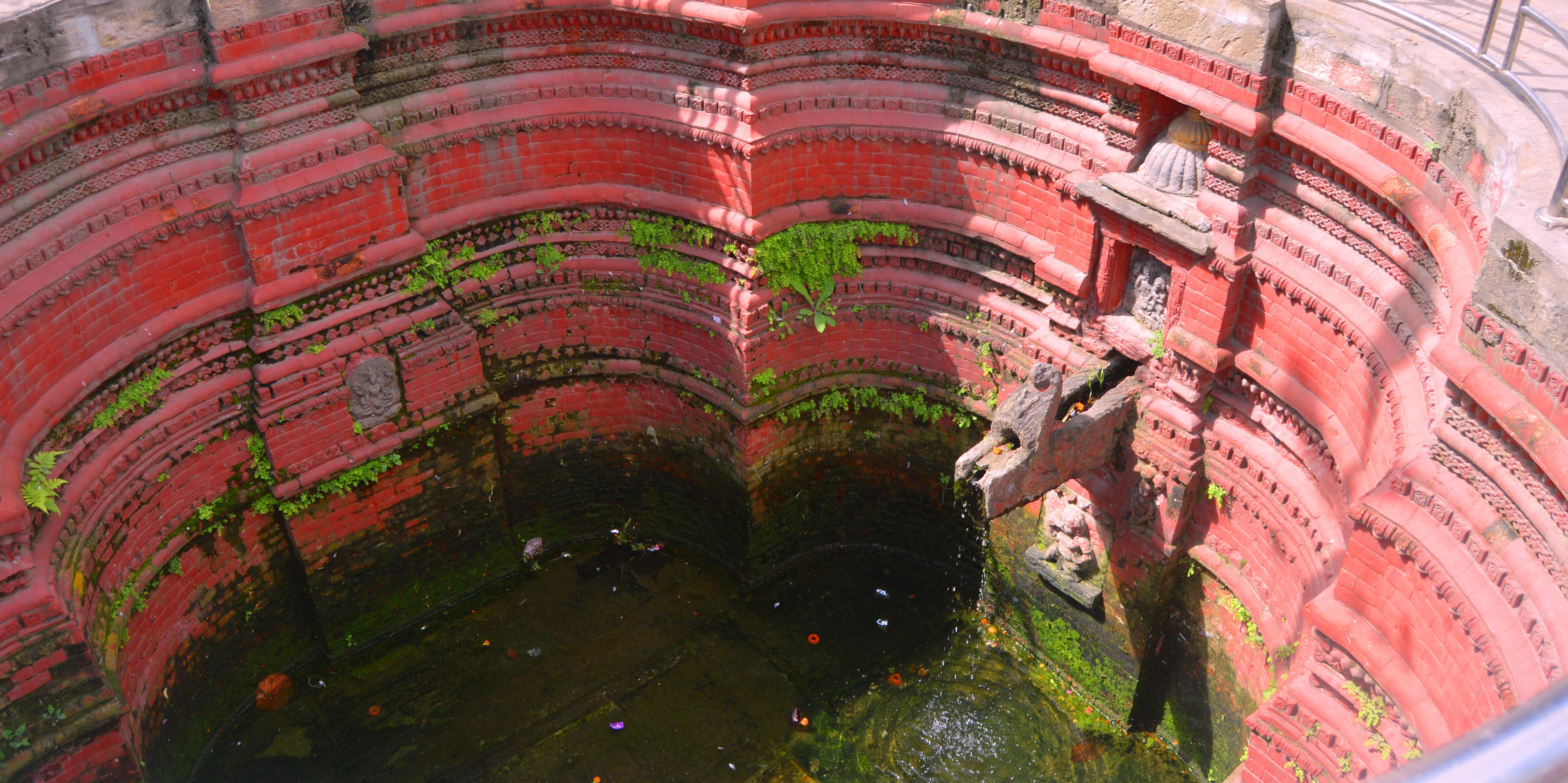 Dhungedhara